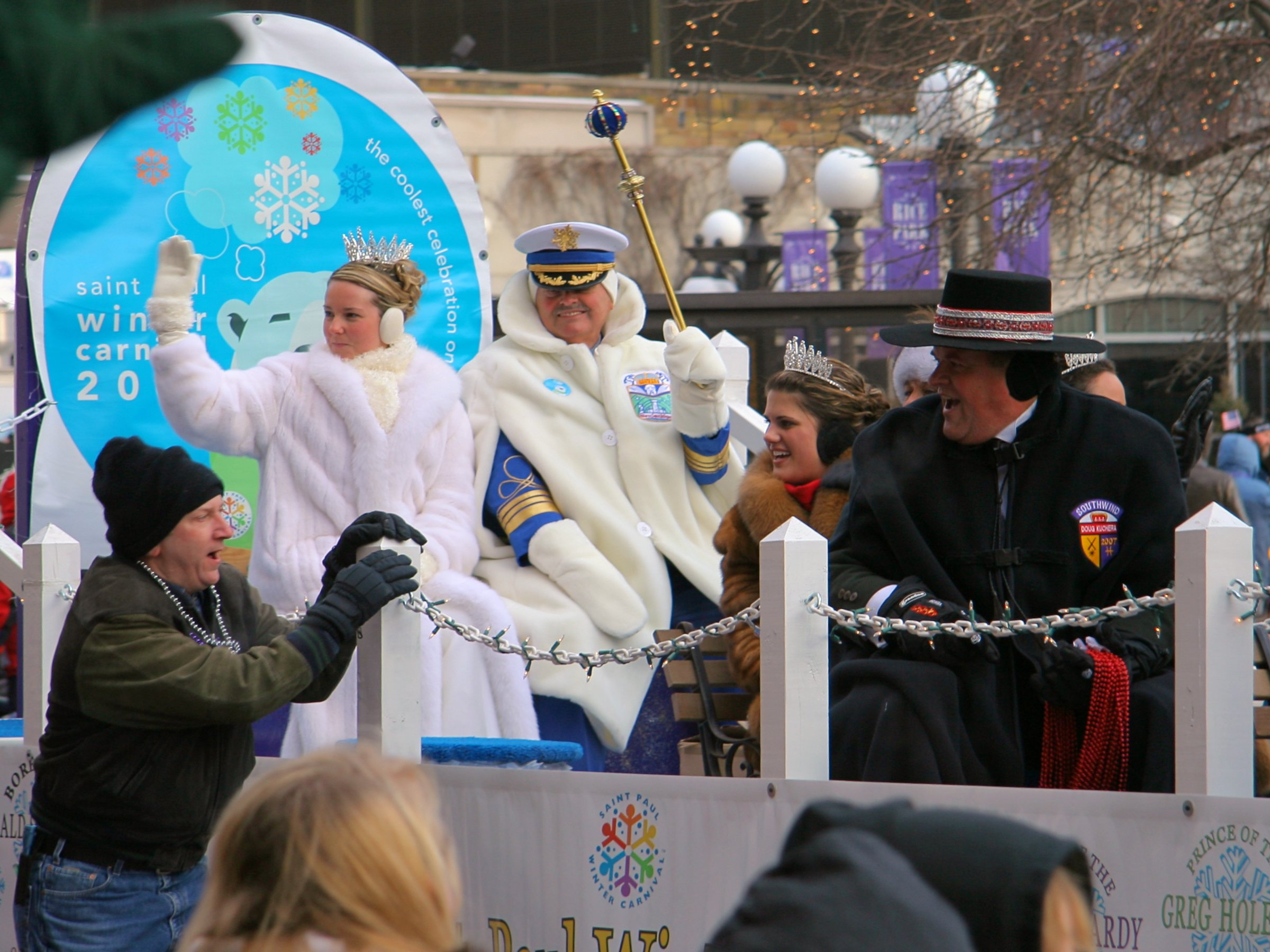 Michael Hicks, Flickr